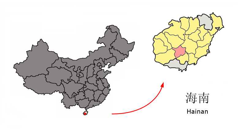 Location of Wuzhishan City (pink) and the subdivisions directly administered by the province (yellow) within Hainan province of China Map drawn in september 2007 using various sources, mainly : Hainan Counties map from